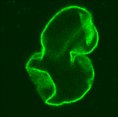 In HGPS patients the cell nucleus has dramatically aberrant morphology.